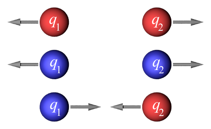 Illustration to Coulombs law